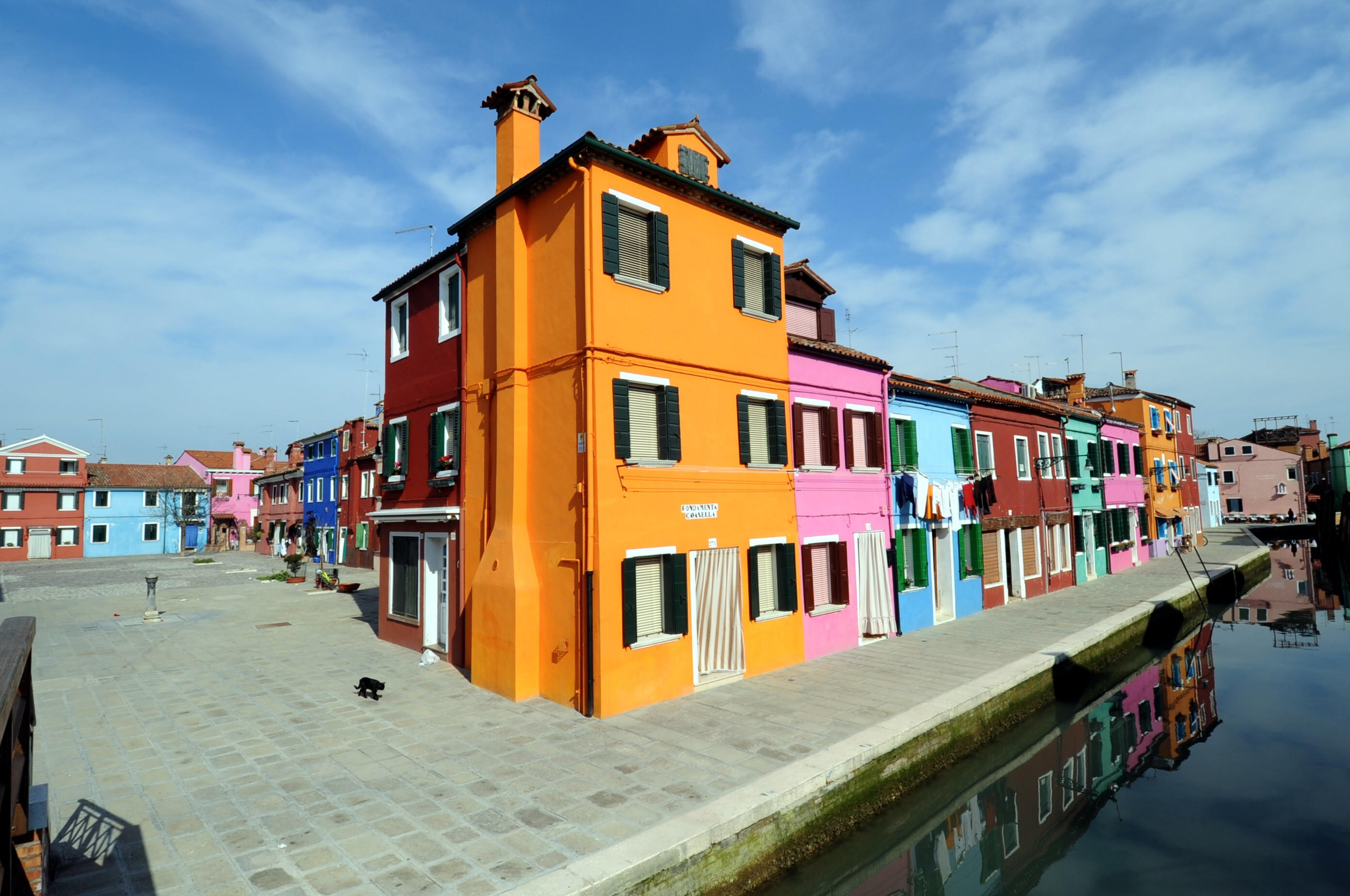 Burano